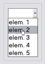 Drop-down List